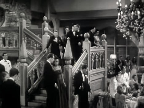 Second Chorus - cropped screenshot